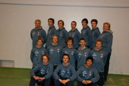 Team SandHaug's teampicture from the nordic teamgym championship in Finland (2009).